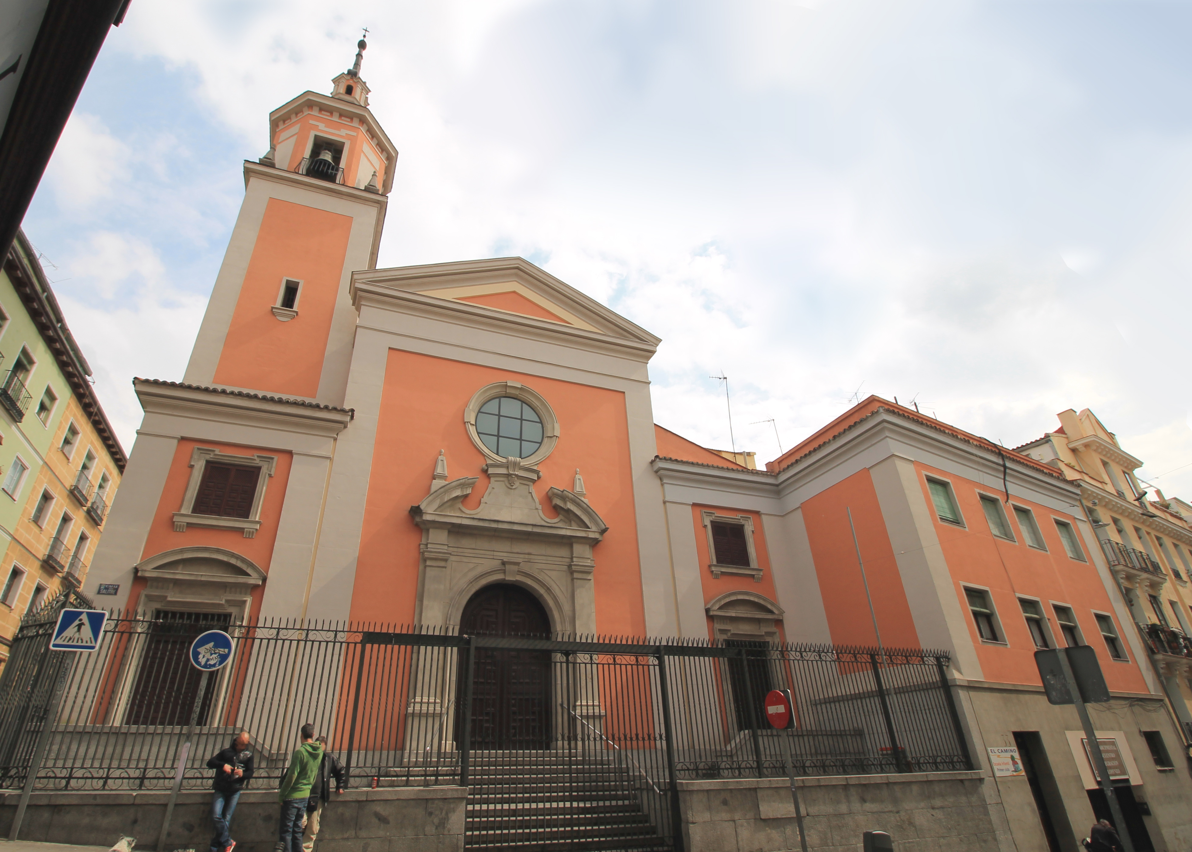 North-west façade of St. Lawrence Church in Madrid (Spain).